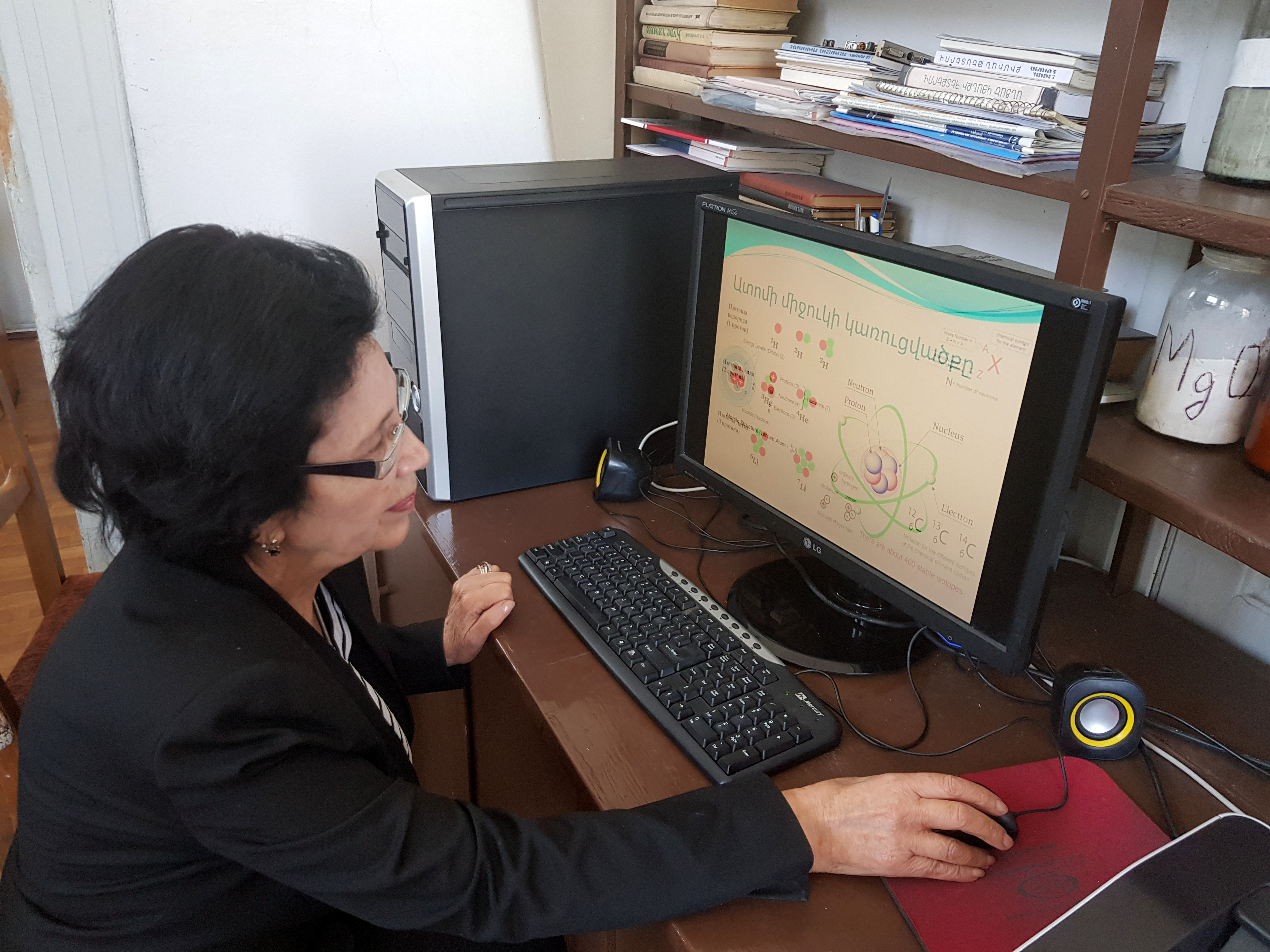 Armenian chemist, professor Vilena Martirossian